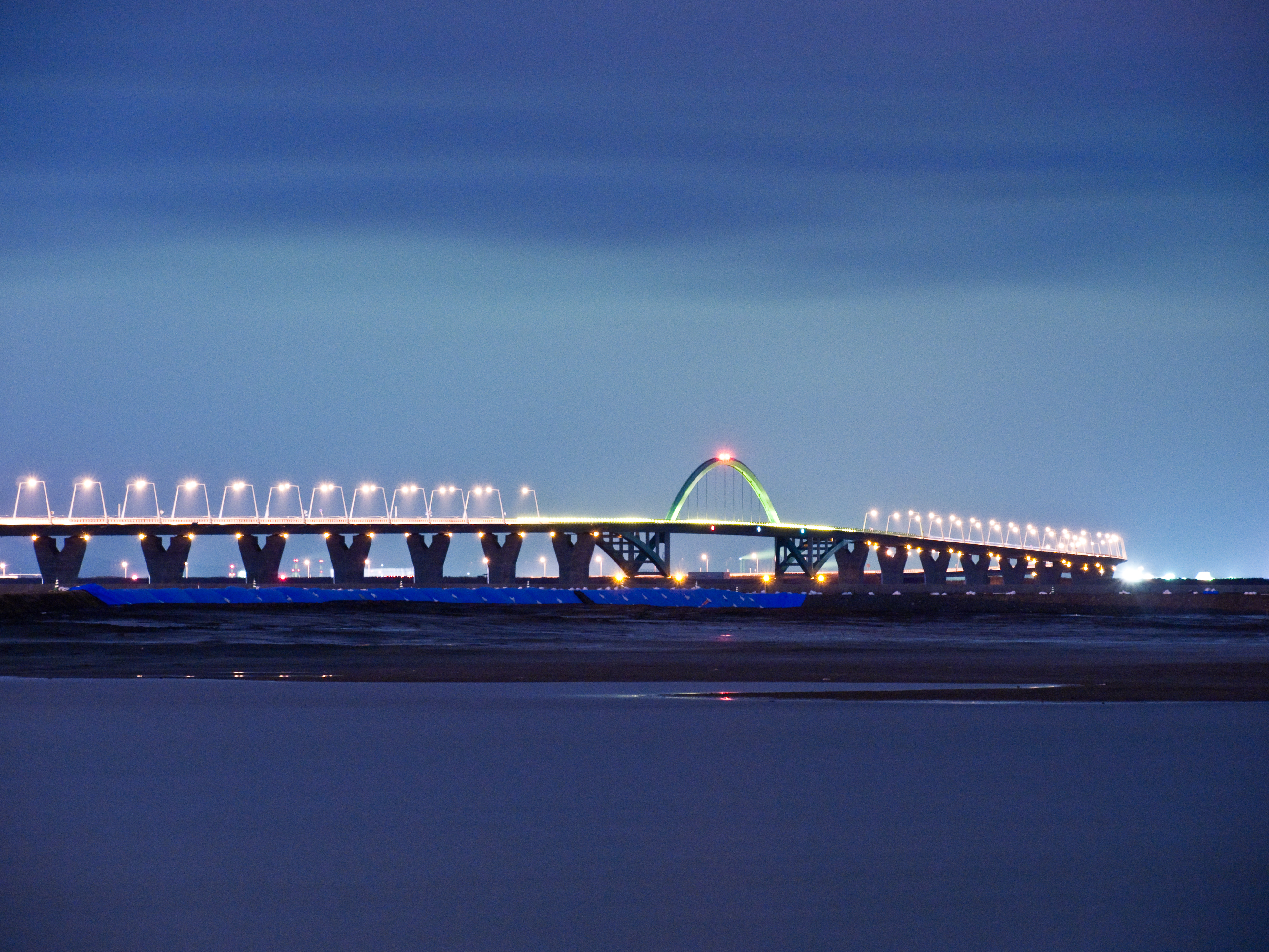 Kitakyushu Airport Access Bridge